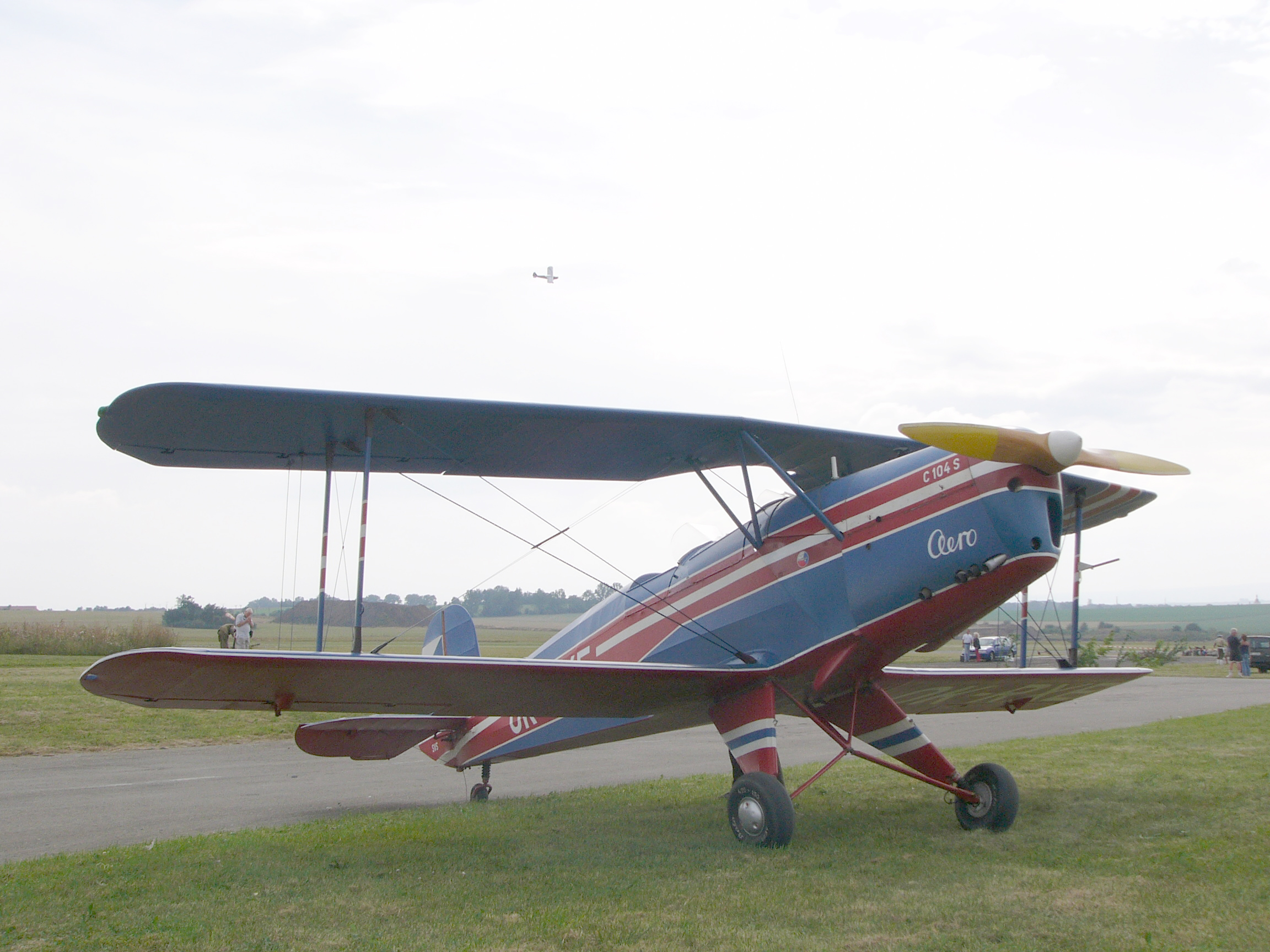 Plane Aero C-104S OK-RXE was Bücker Bü 131 (see English wikipedia: Bücker Bü 131) licensed and produced in Czechoslovakia in 1946-1949.